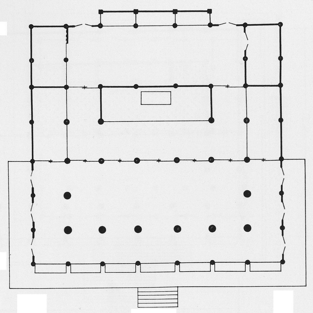 Layout of Kongôrin-ji Main Hall